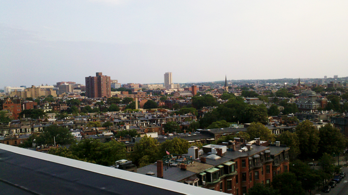 Rooftop